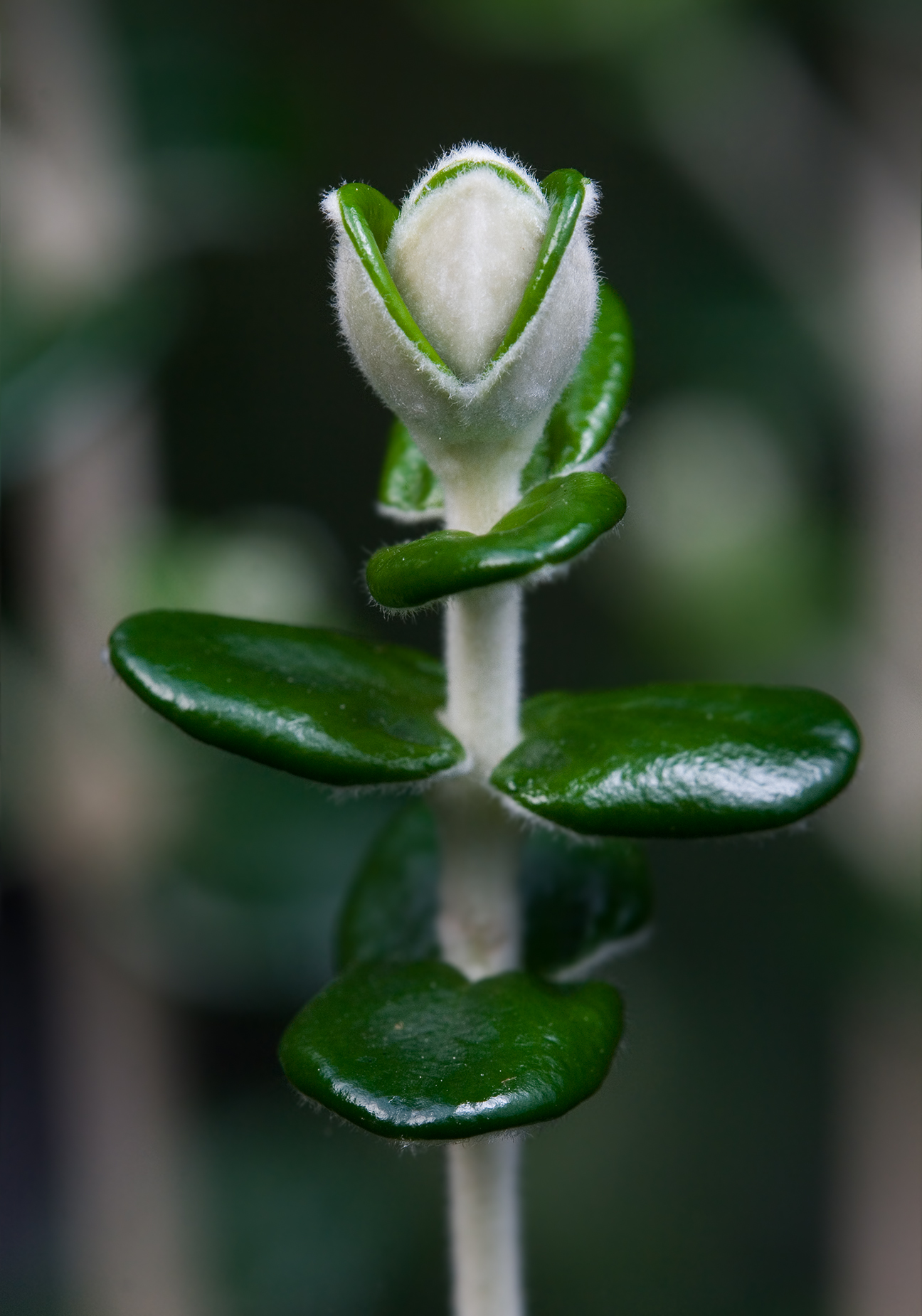 Pimelea Nivea flower bud, Royal Tasmanian Botanical Gardens, Tasmania, Australia Camera data Camera Canon EOS 400D Lens Tamron EF 180mm f3.5 1:1 Macro Flash Shoot through umbrella left Focal length 180 mm Aperture f/9 Exposure time 1/25 s Sensivity ISO 400